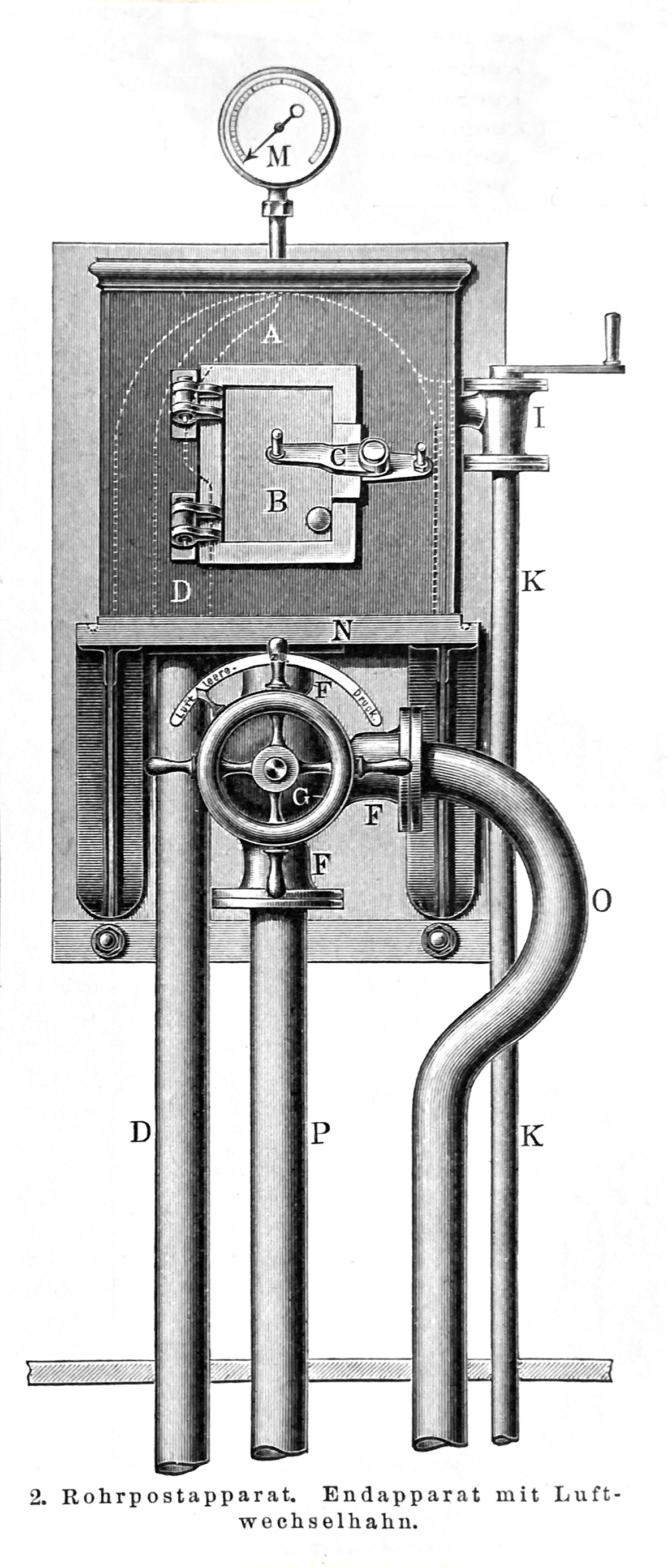 Pneumatic delivery apparat, Terminal adapter with air transition cock